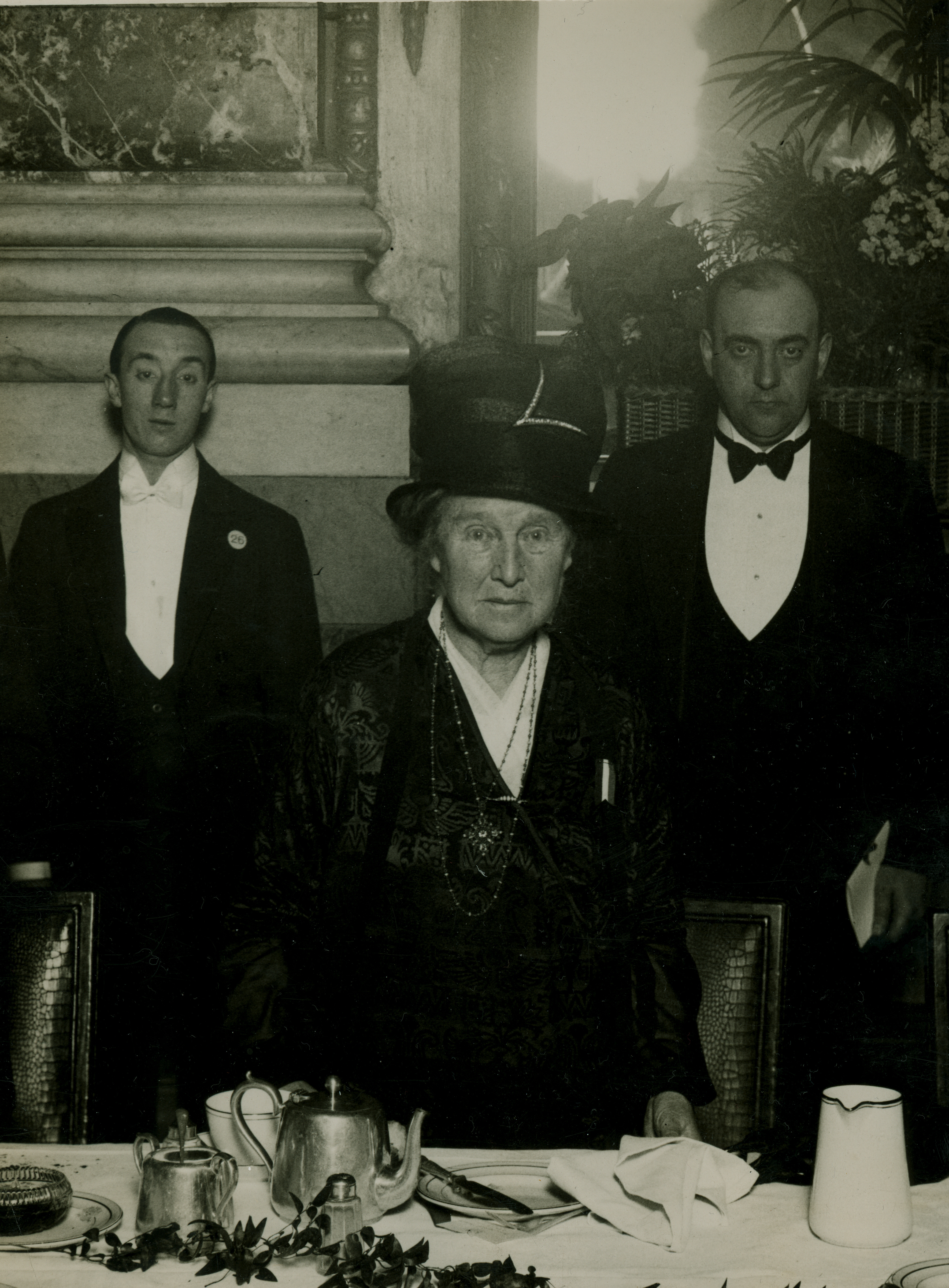 twl 2004 12